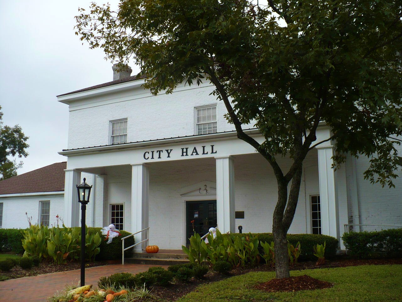 Demopolis City Hall in Demopolis, Alabama, United States. It is located on the eastern side of the Town Square and is within the Demopolis Historic Business District.